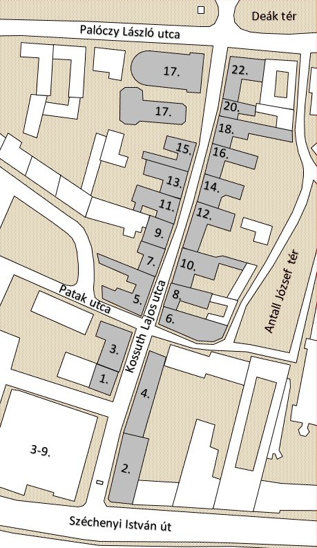 Kossuth Street Map, Miskolc, Hungary